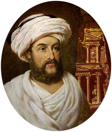 Johann Ludwig Burckhardt, Swiss traveler and orientalist